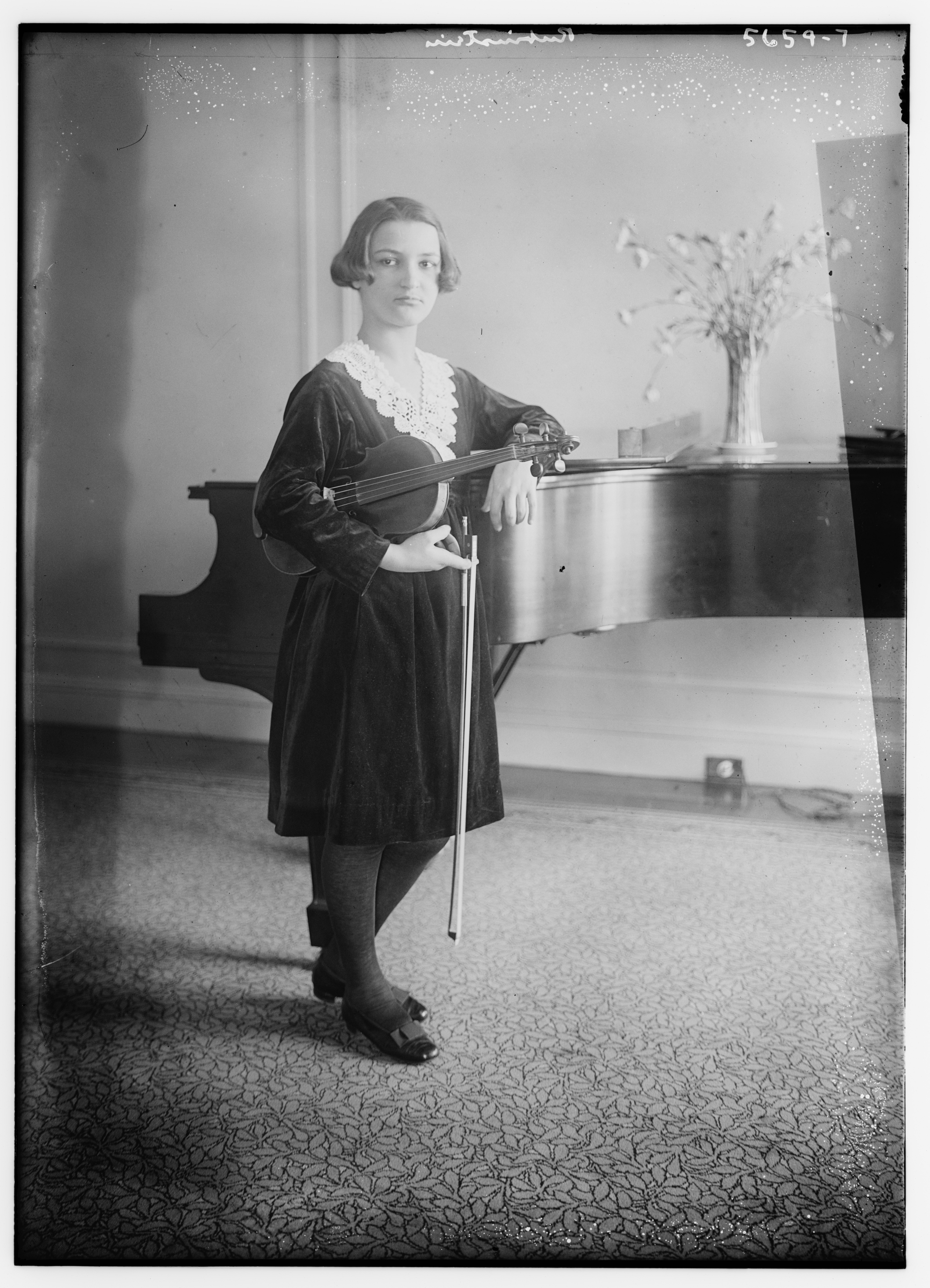 Title: Rubinstein [holding violin, looking at it, near piano] Abstract/medium: 1 negative : glass ; 5 x 7 in. or smaller.